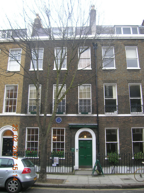 Dickens' House, 48 Doughty Street, London WC1 Houses a Dickens' Museum Charles_Dickens_Museum .